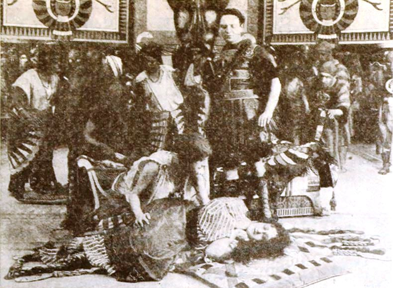 Still from the Italian epic film Cabiria (1914), published on page 61 of the October 1921 Photoplay magazine.